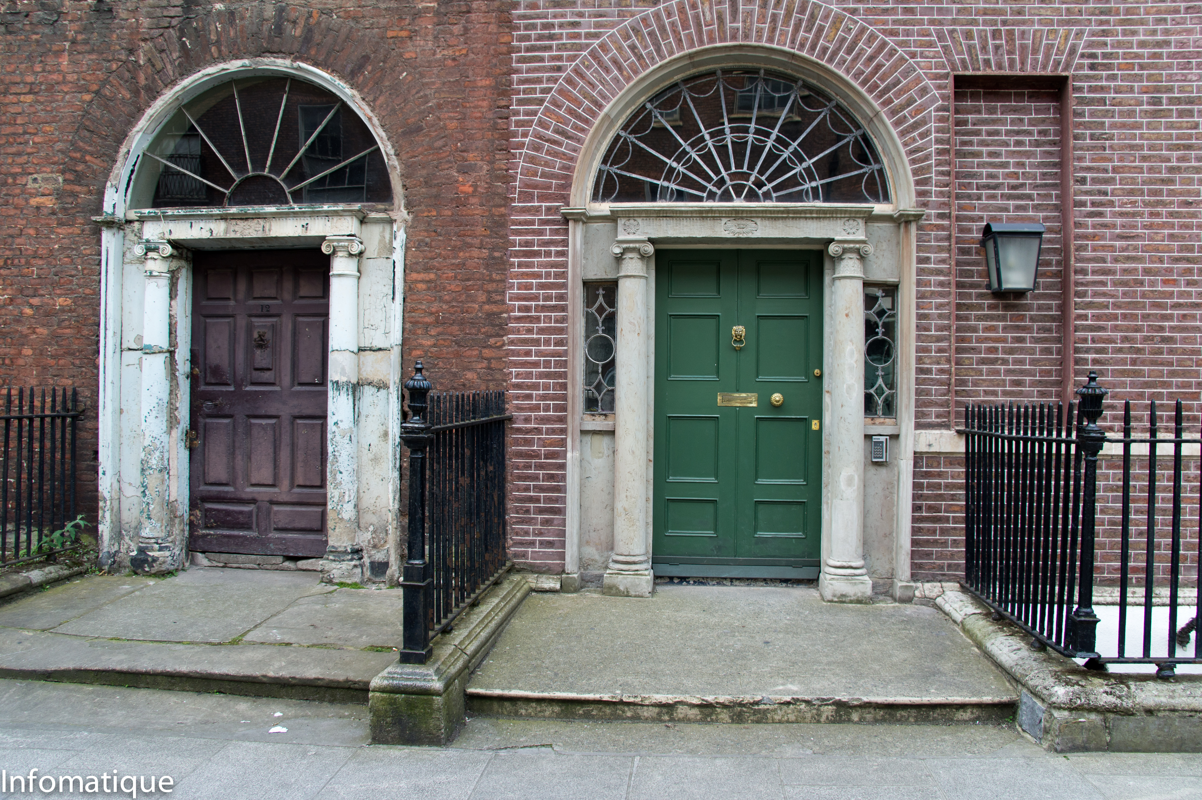 Numbers 12 (left) and 11 (right) Henrietta Street Dublin 1 designed as a pair by Edward Lovett Pearce "Nos. 11 & 12 (south-side), built by Luke Gardiner as a pair between 1730 and 1733, according to the designs of Edward Lovett Pearce. No. 11 was first occupied by Rt Hon William Graham, PC, Brigadier General, while the first known occupant of No. 12 was William Stewart, 3rd Viscount Mountjoy and later 1st Earl of Blessington (Memorial of Deed 1738)." Henrietta Street Conservation Plan, Plean Caomhantais Shráid Henrietta, An Action of the Dublin City Heritage Plan, Gníomh de chuid Phlean Oidhreachta Chathair Bhaile Átha Cliath